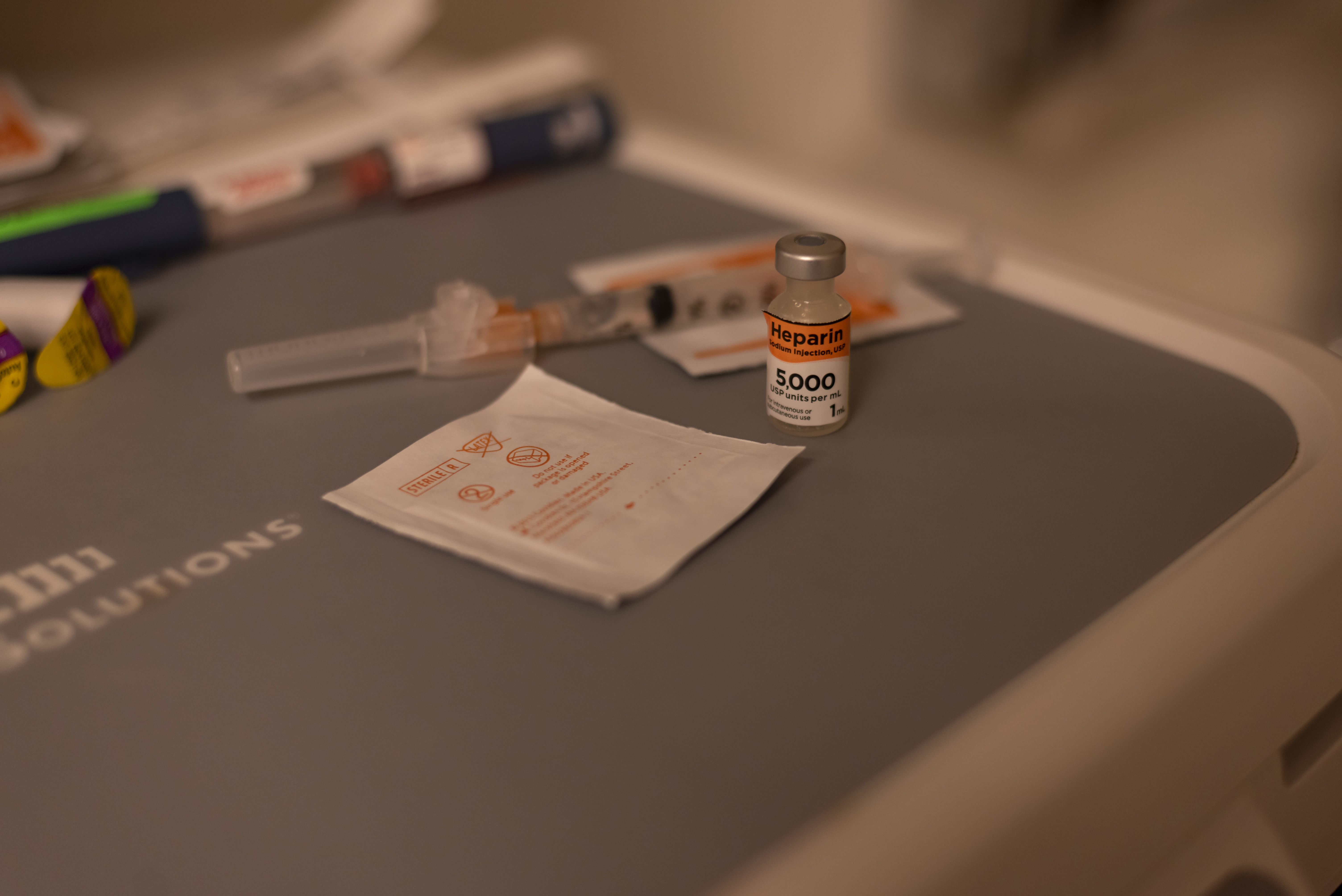 Heparin